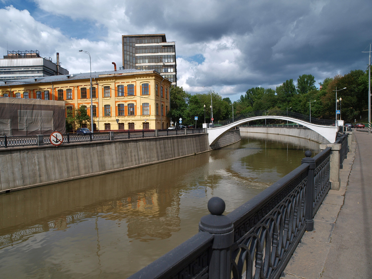 Tamozhenny Bridge over the Yauza River